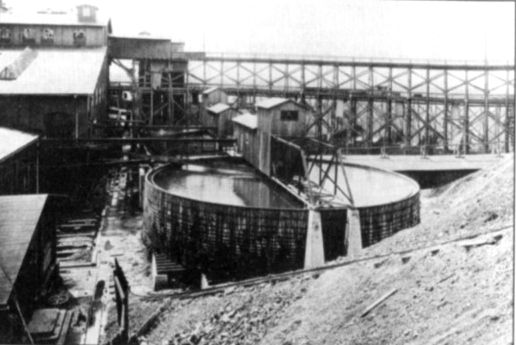 Lead and zinc ore mine "Nowy Dwór" in Bytom, Upper Silesia, Poland, ca. 1925 (at the time when the picture was taken: "Neuhofgrube" in Beuthen, Germany)